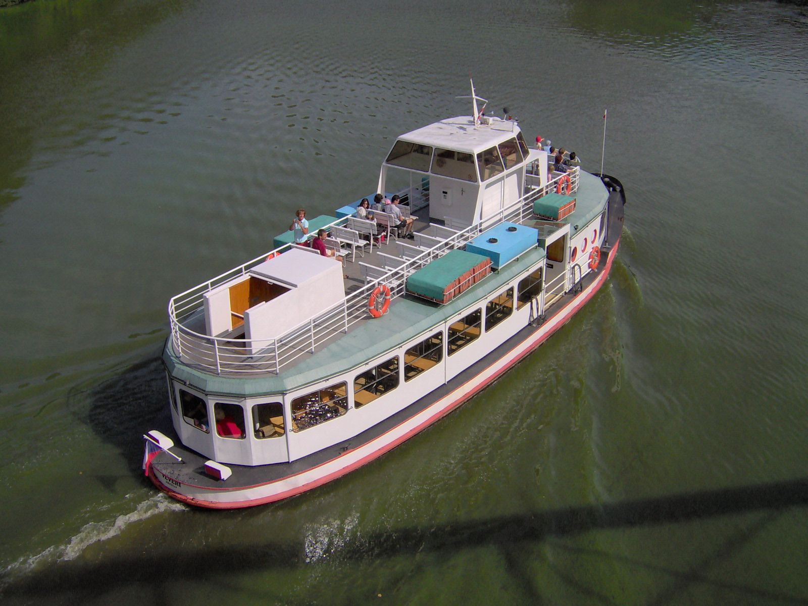 Ship Veveří on the Brno dam